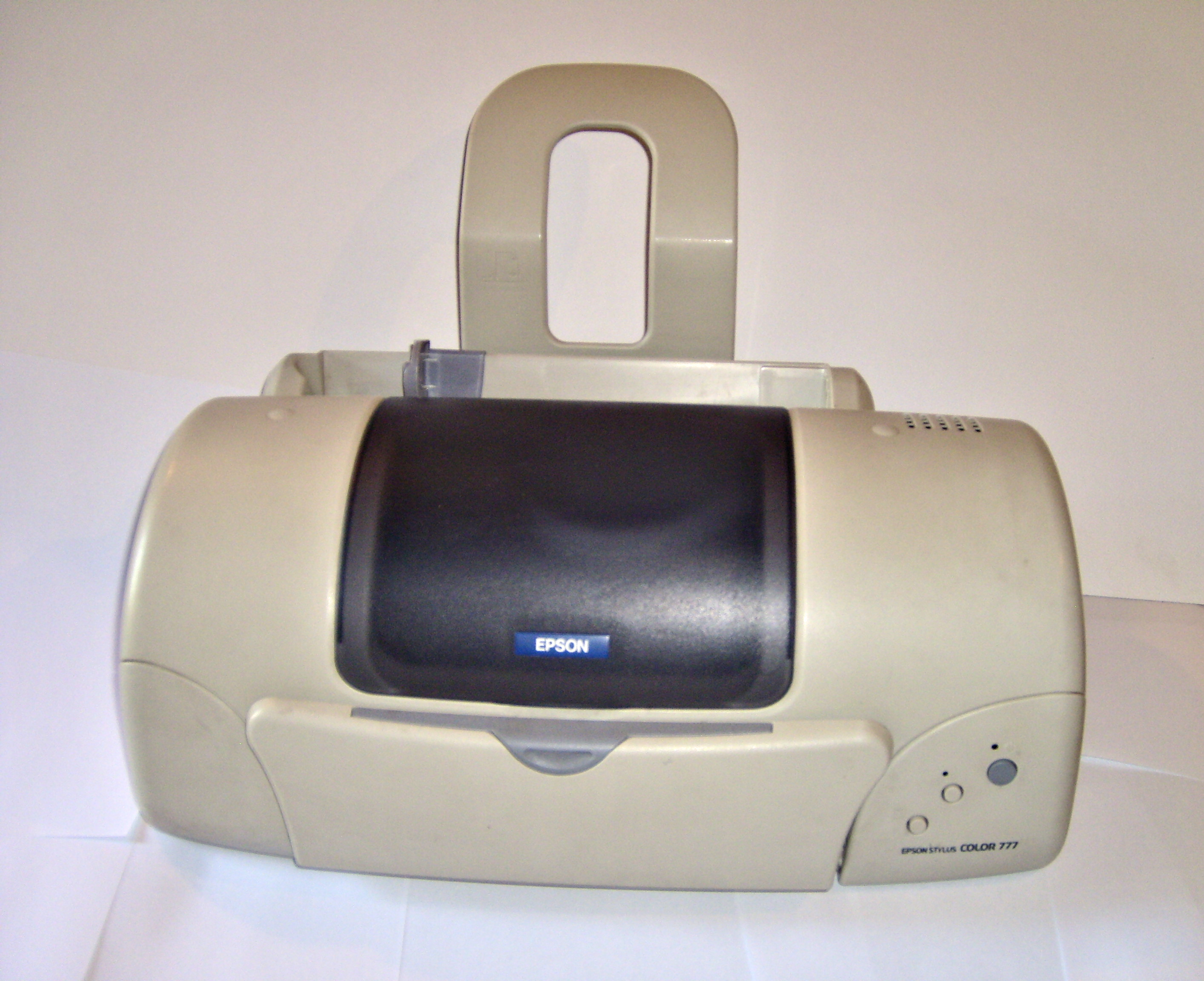 This a photo of the EPSON Stylus Color 777 printer.